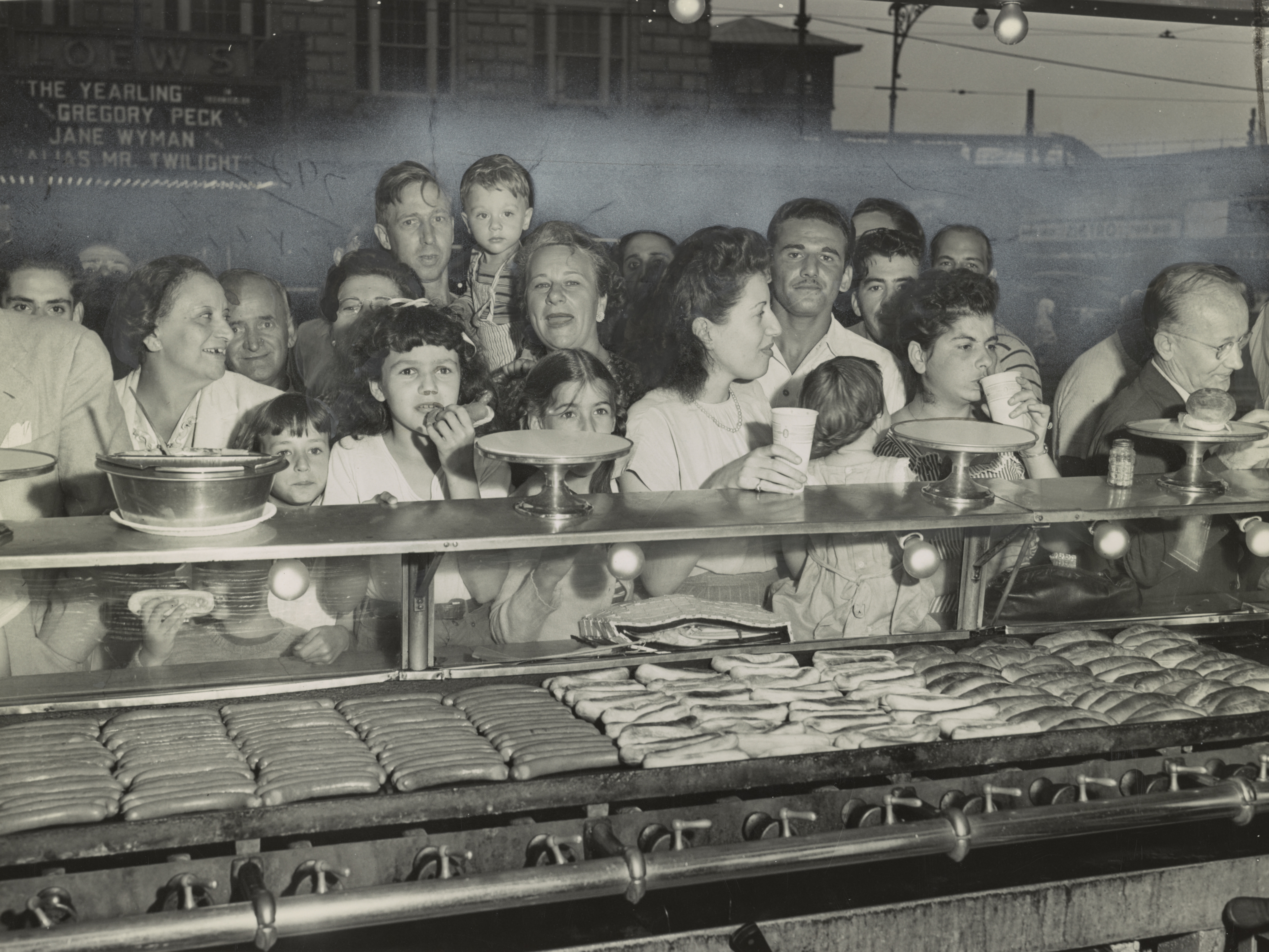 Photograph showing a hungry crowd eating and drinking at Nathan's food counter with hot dogs and rolls cooking on the grill.